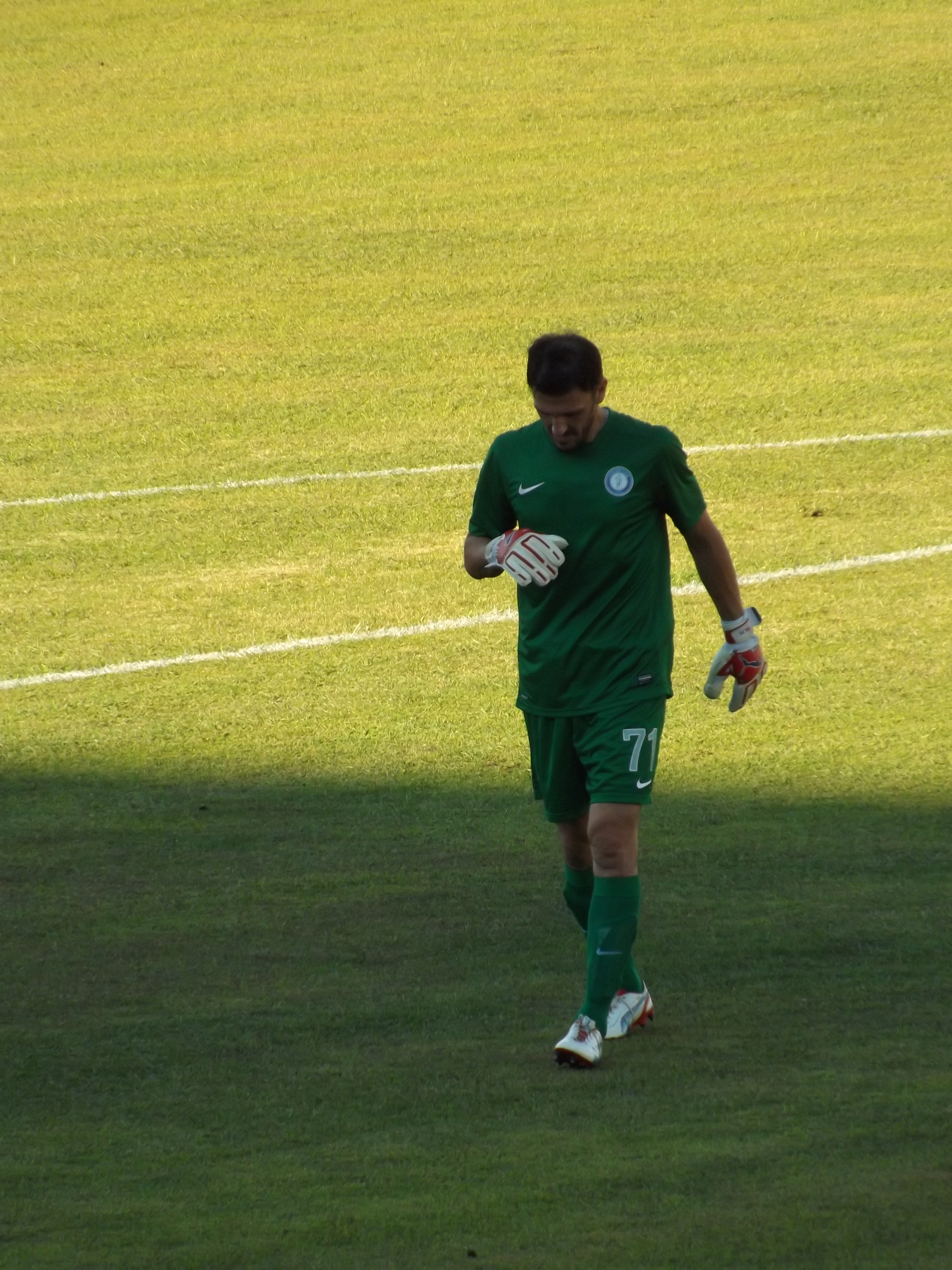 Fotis Kipouros playing for Iraklis in a friendly match against Veria.